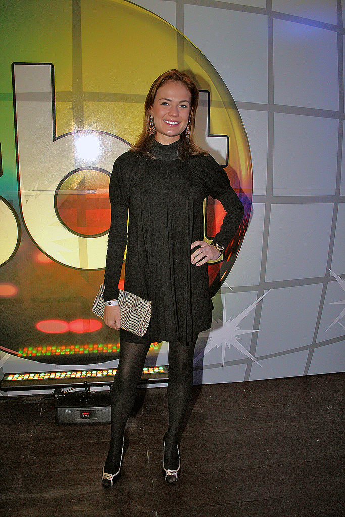 Thais Pacholek no SBT